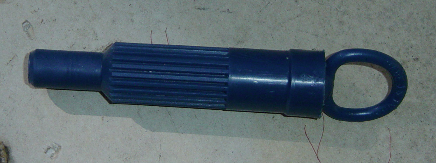 Pilot shaft guide tool to aid in automotive clutch and pressure plate installation. Image by User:Leonard G.